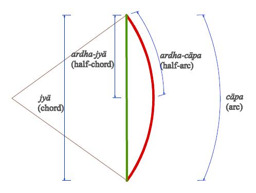 My own creation. First created using Autocad 2007, then plotted as a PDF file. Took a snapshot and saved in the JPG format.